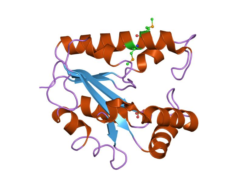 Cartoon representation of the molecular structure of protein registered with 1zp6 code.